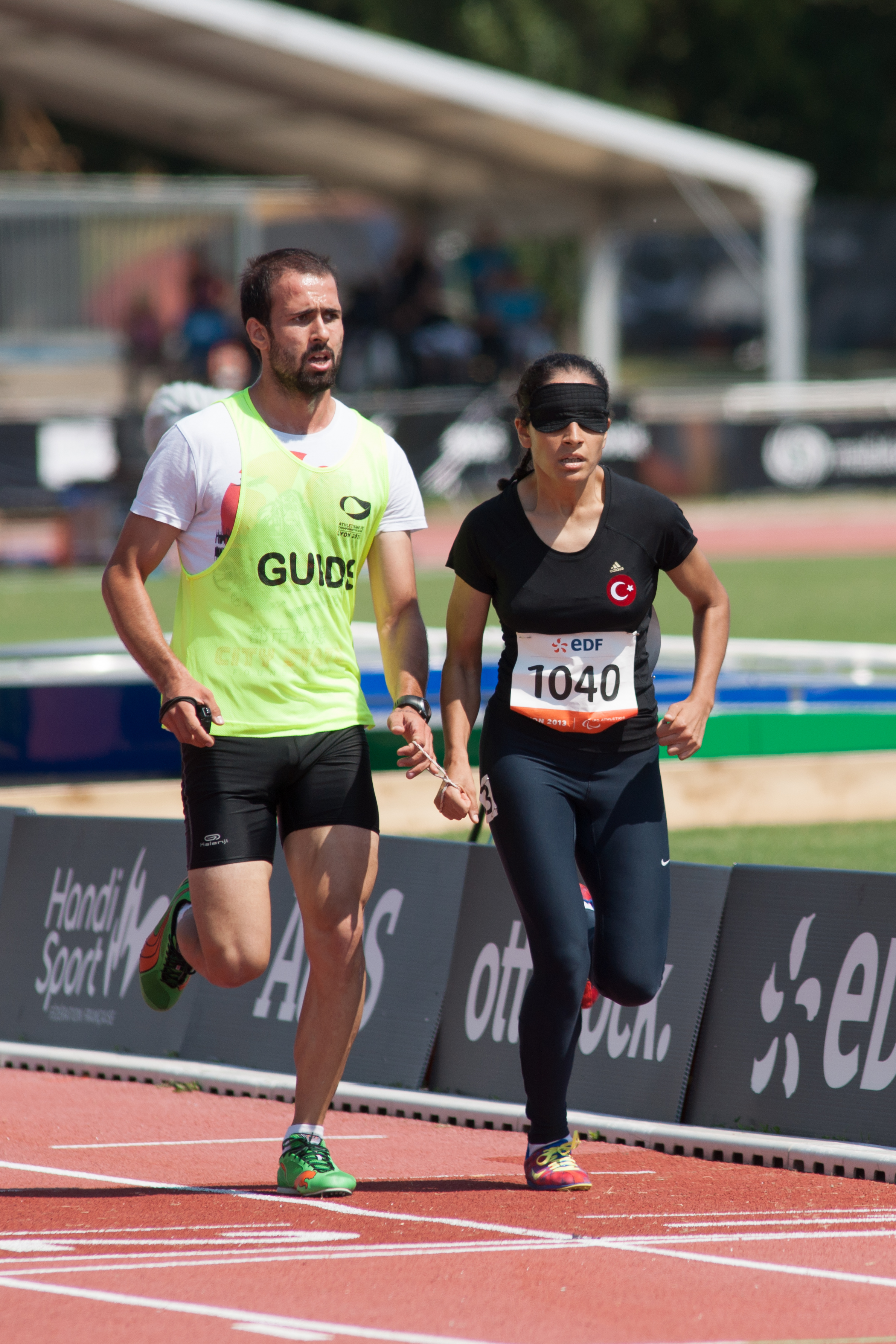 2013 IPC Athletics World Championships. Women's 1500 metres T12.